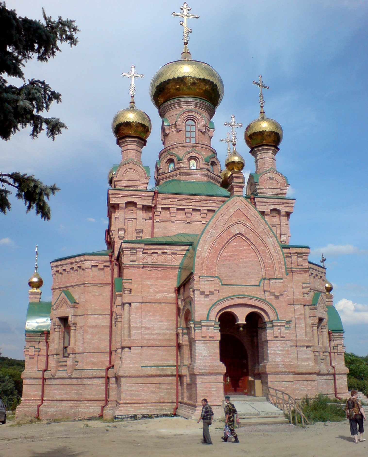 Golosiivska Pustyn monastery, Kiev